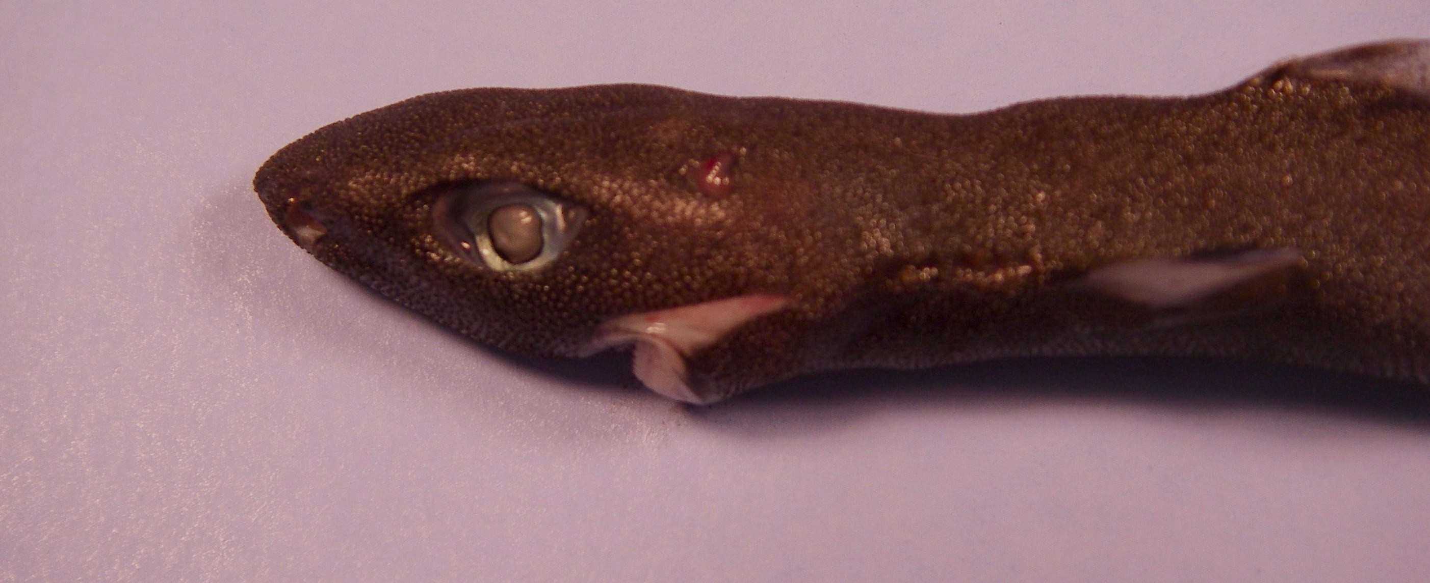 Spined pigmy shark ( Squaliolus laticaudus ). This is one of the smallest of of sharks, being only 8 to 10 inches in length when fully grown. Gulf of Mexico.